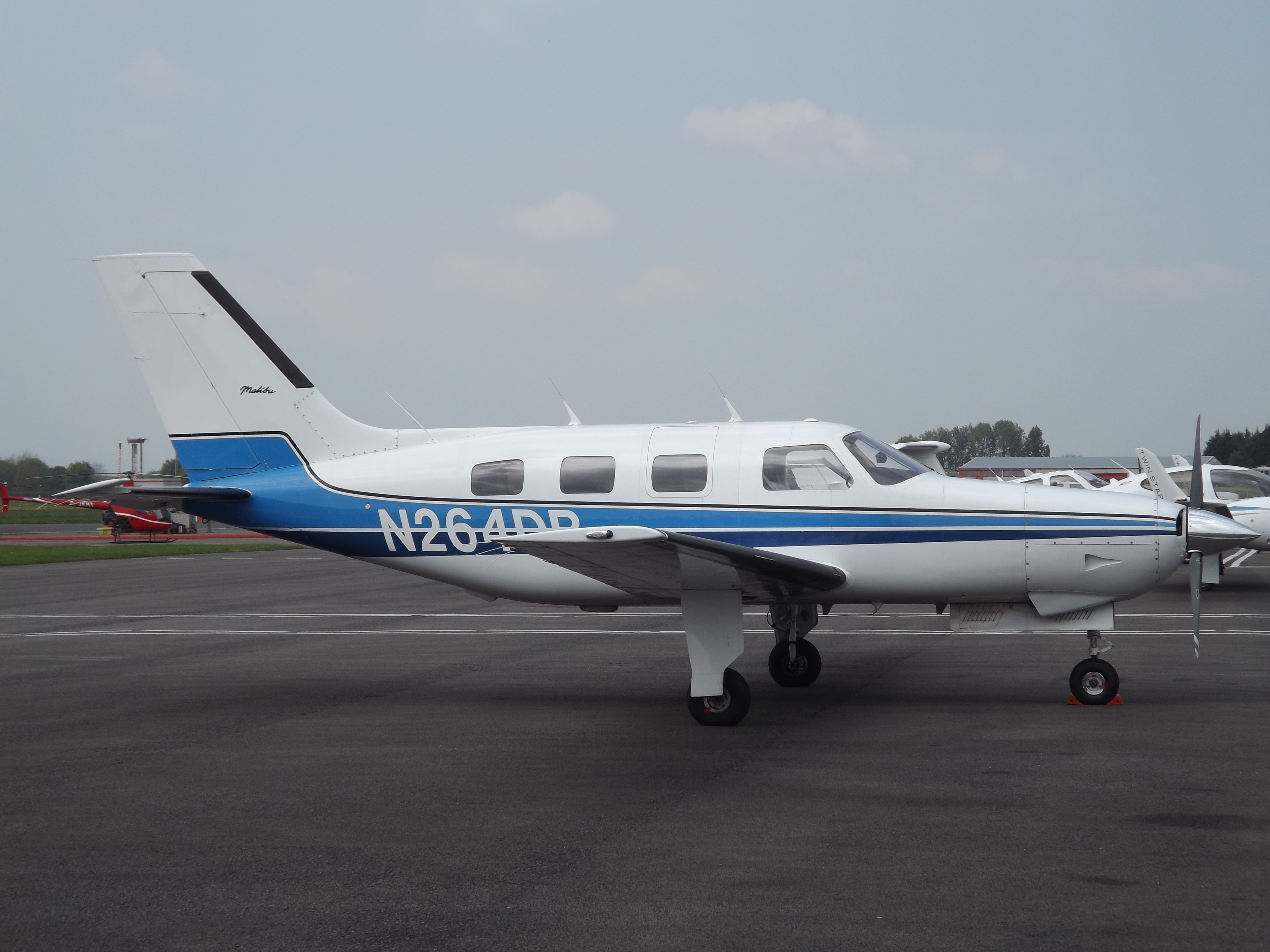 At Gloucestershire Airport.